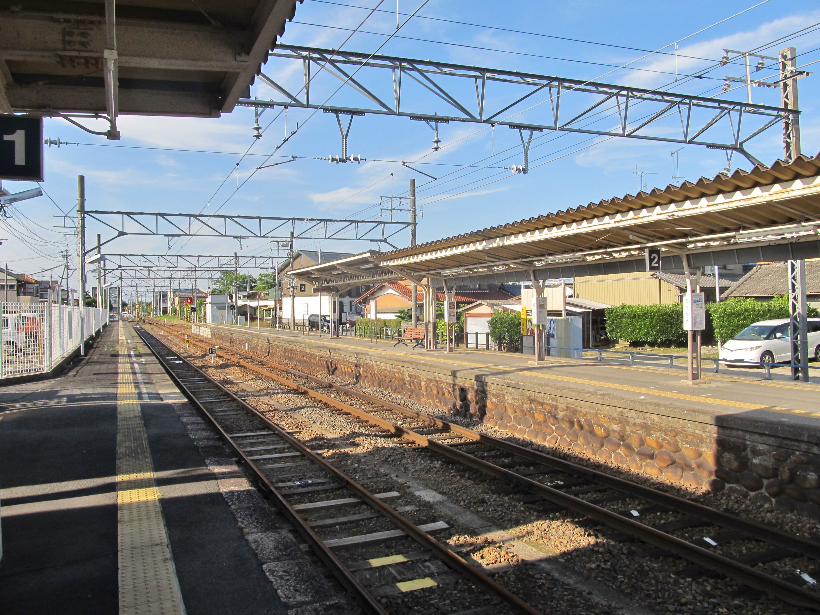 Nagoya Railroad Bisai Line Morikami Station Platform